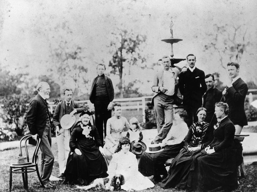 John Cameron and family with friends at Doobawah, ca. 1888. John Cameron standing on far left; his wife Francis Spencer is the second lady seated from the right; his mother-in-law is the first lady from the left. Waverley Fletcher is second on the right; Aunt Grace is third lady on right. Fanny cordelia is second lady on left. Beauty, the dog, lies on the ground with Adsie.